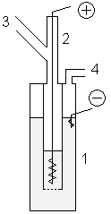 Laboratory method of fluorine obtaining